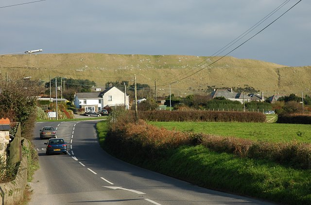 High Street. High Street is actually the name of this hamlet. Behind and to the north of it, a great wall of china clay waste.